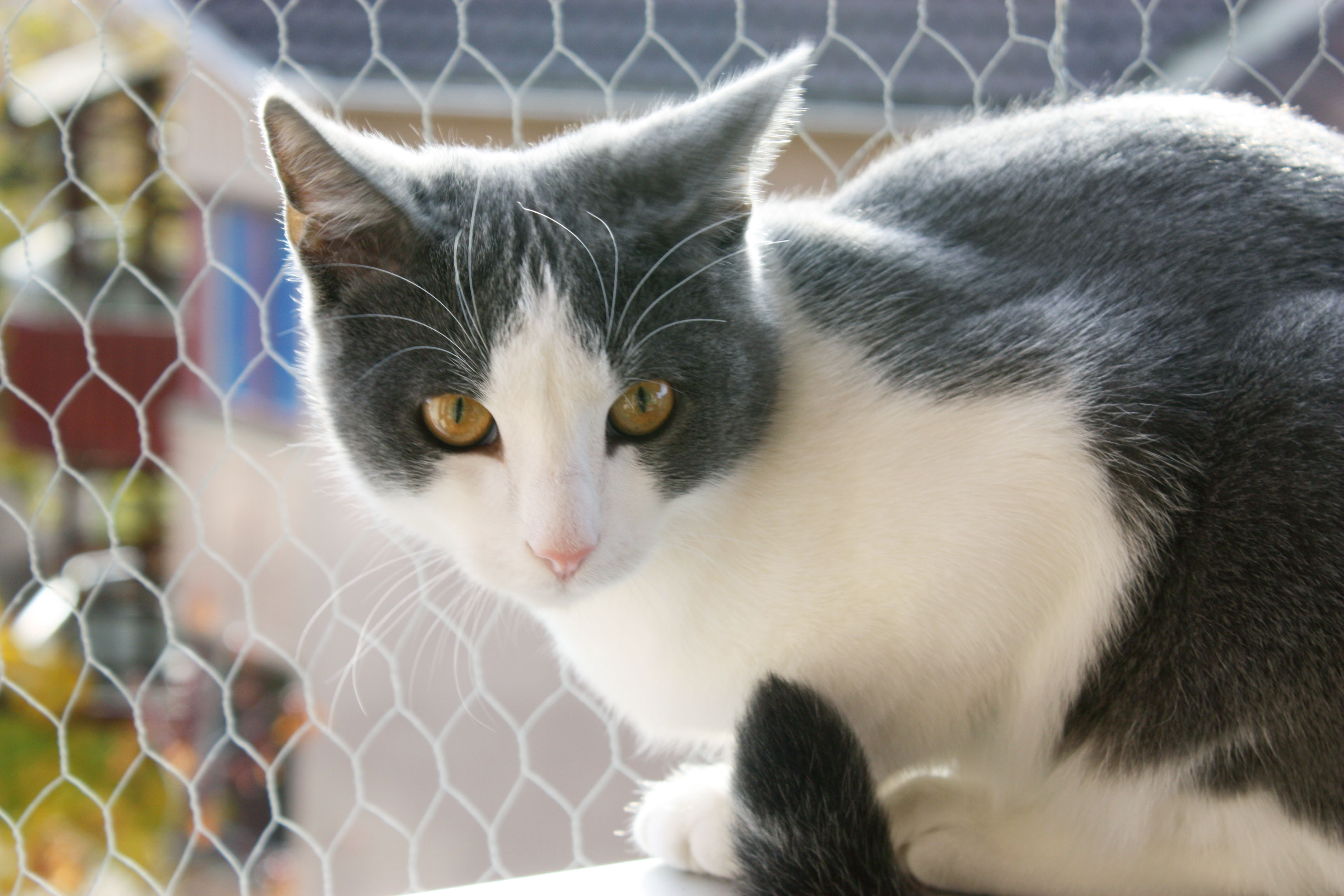 Bicolored he-cat